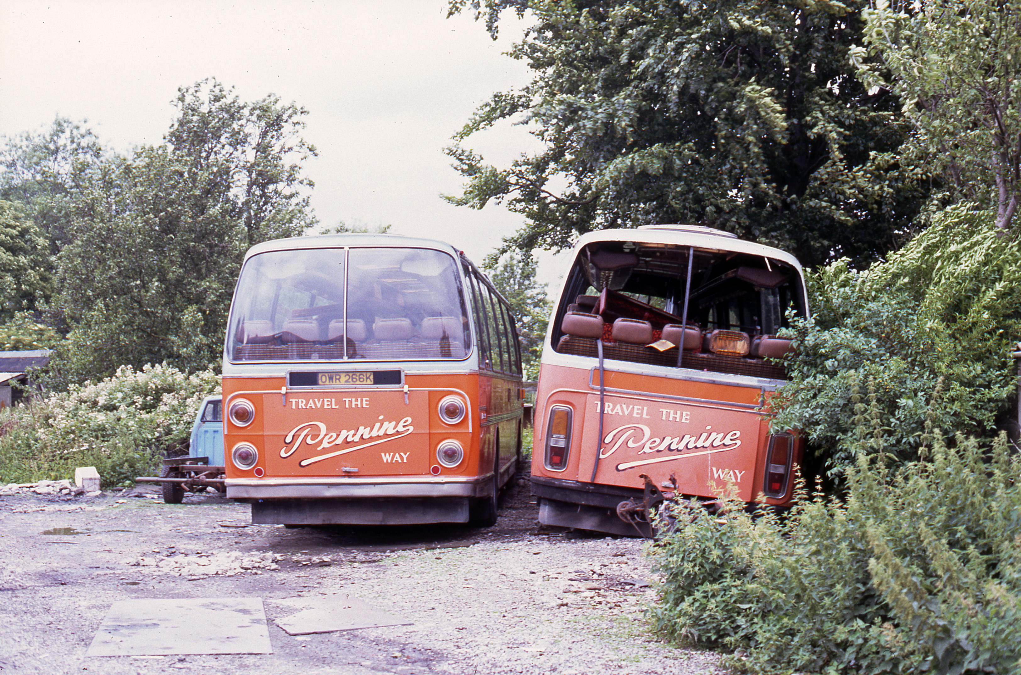 Rear ends of two Plaxton Elite bodied Leyland Leopards in Pennine Motor Services' Gargrave yard, summer 1991. On the left, Elite Express II OWR 266K appears intact, whereas the example on the right, which I believe may have been ex-Yorkshire Traction RHE 32M, a Panorama Elite III, is partially stripped of parts.